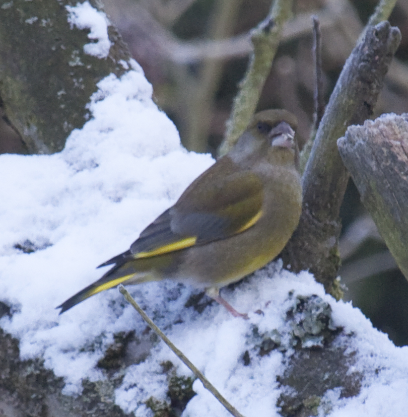 The Greenfinches are back, at least three were around the feeder today